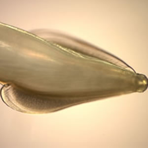 Toxocara cati. Close-up of the anterior end of Toxocara cati, showing the three lips characteristic of ascarid worms